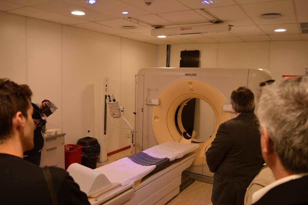 Magnetic Resonance Imager at CEMENER (Oro Verde, Entre Ríos, Argentine) - Image taken during an assessing visit to the premises of the Molecular & Nuclear Medicine Centre (CEMENER), built by the Entre Ríos Province´s Institute of Social Assistence (IOSPER), the Argentine Republic Comission of Atomic Energy (CNEA), and the Government of the Province of Entre Ríos.